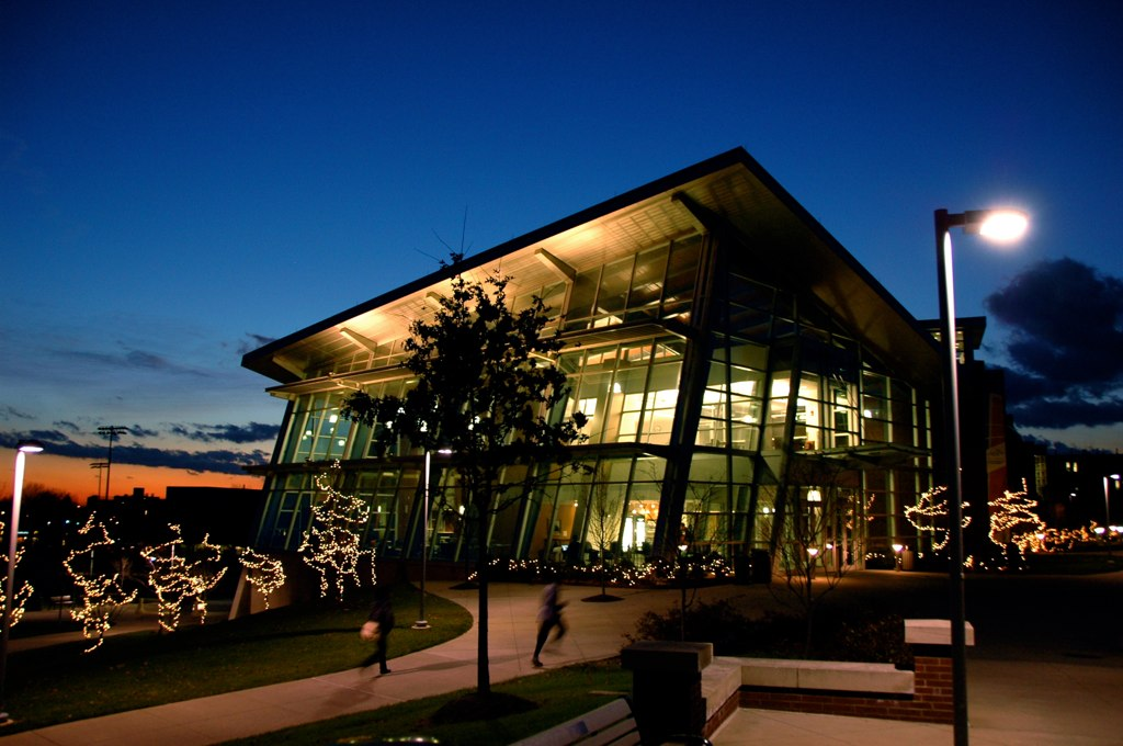 University of Akron's Newly built Student Union